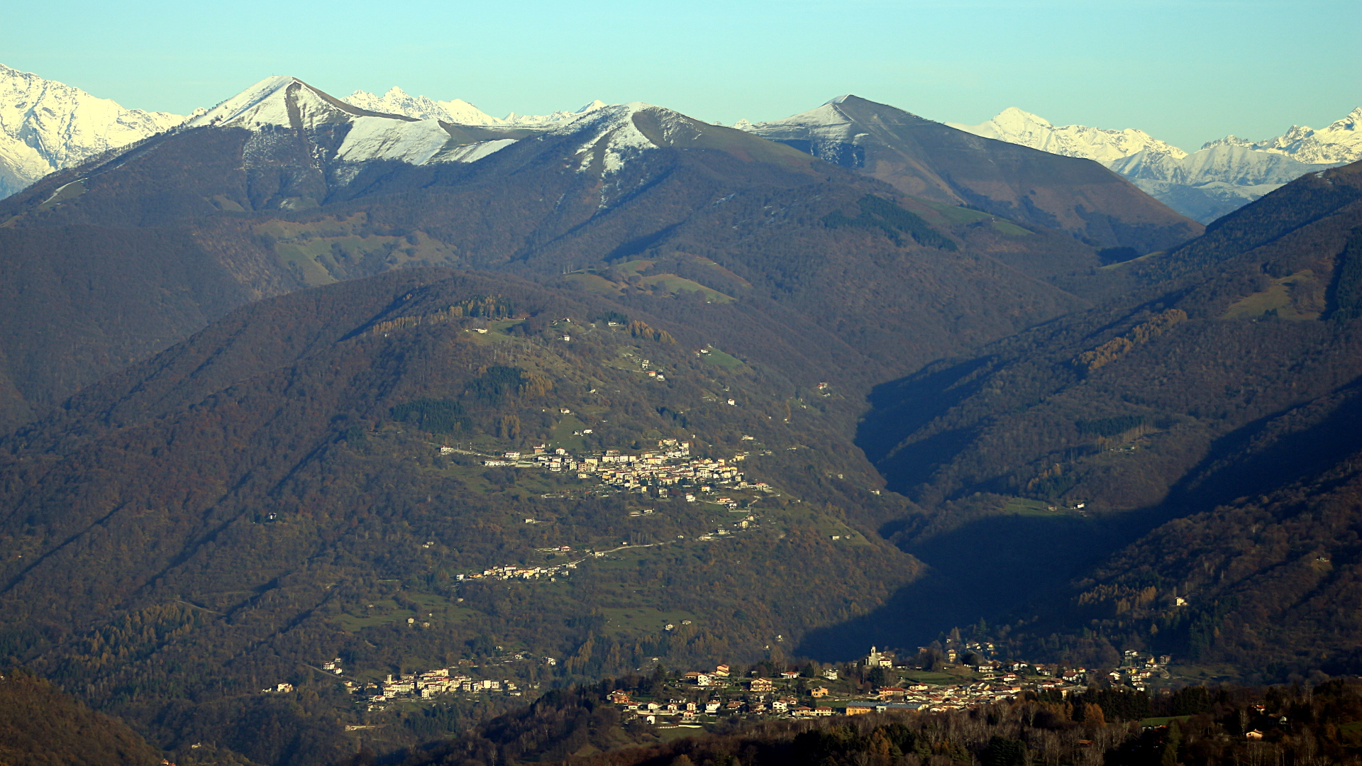 Municipality of Ponna, province of Como, Italy, from Sighignola. In foreground also the municipality of Pelio, then Ponna Inferione, Ponna di Mezzo, Ponna Superiore and the valley of Ponna.